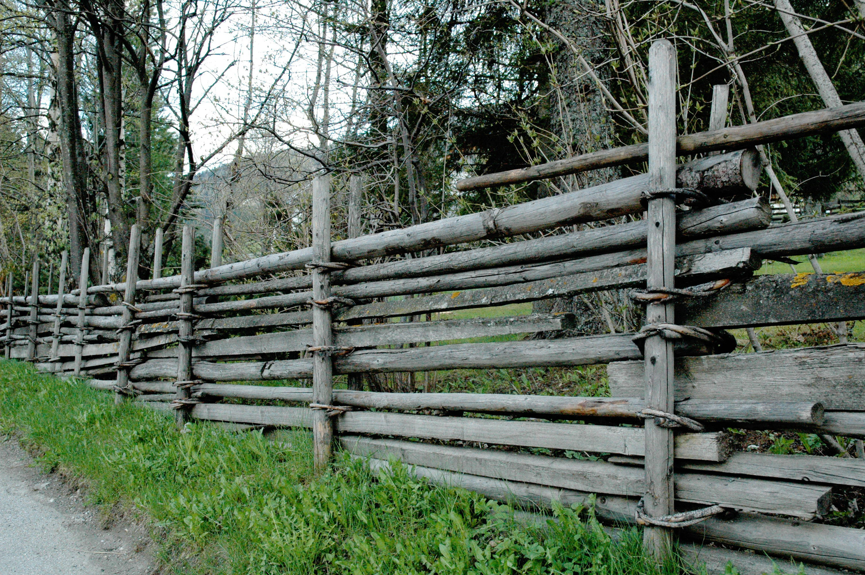 Wooden fence at Saint Oswald, municipality Bad Kleinkirchheim, district Spittal an der Drau, Carinthia / Austria / European Union